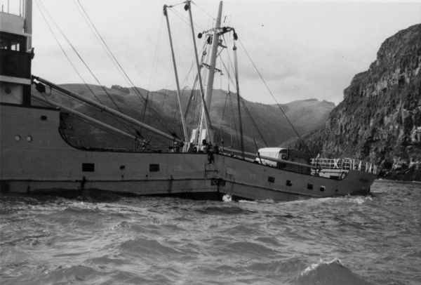 Shipwrecked vessel, Holmbank, having run aground on Whale Rock, on 21 September 1963.